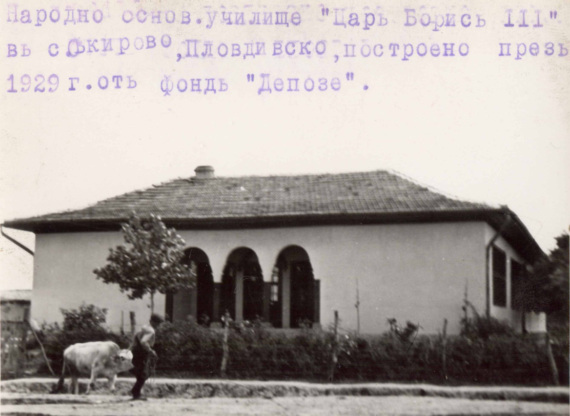 "Tsar Boris III" School, Sekirovo, Plovdiv Province - 1929